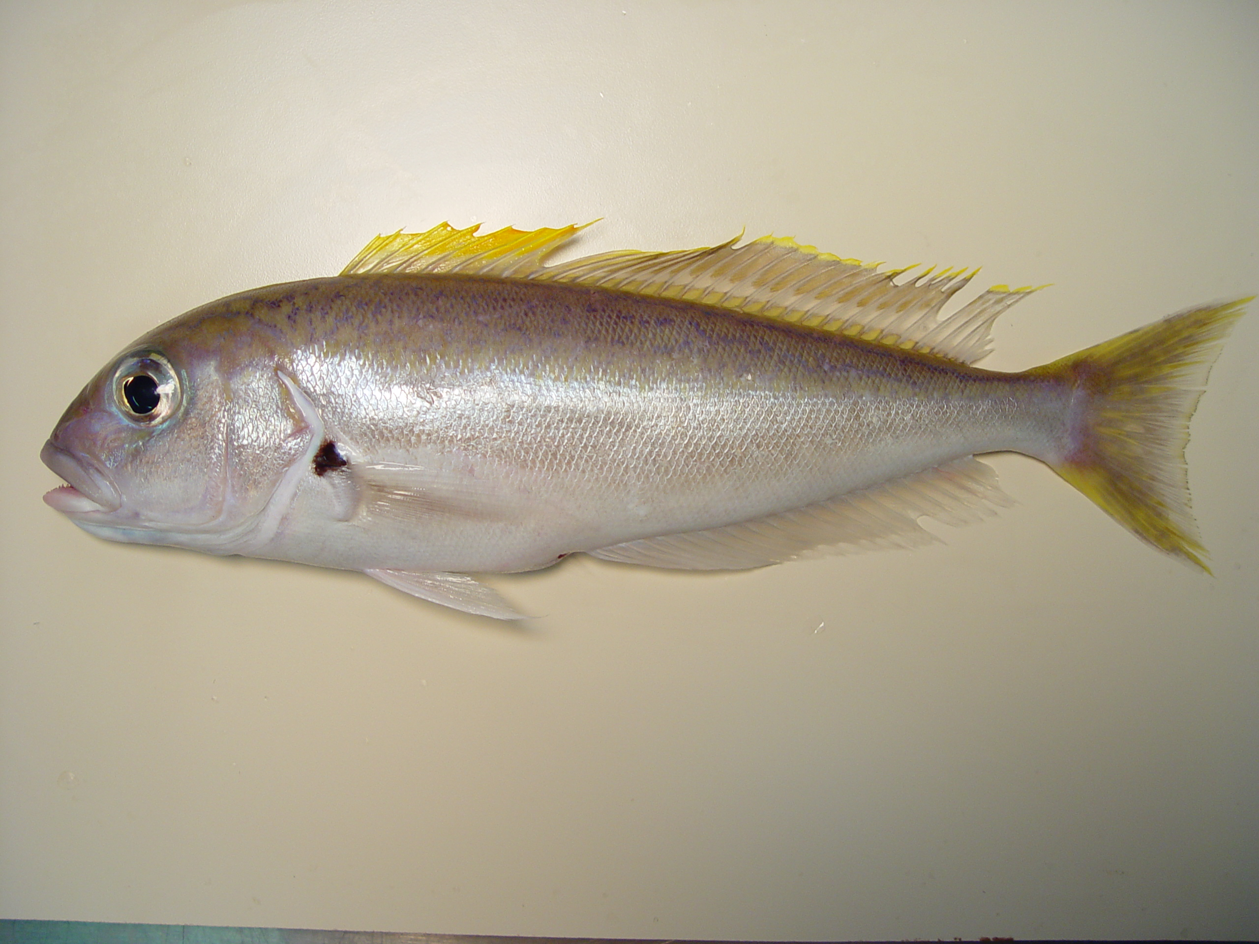 Blackline tilefish ( Caulolatilus cyanops ). Gulf of Mexico.